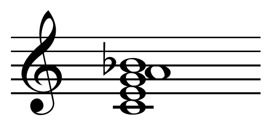 Seven six chord on C. Created by Hyacinth (talk) 15:53, 26 June 2011 (UTC) using Sibelius 5.